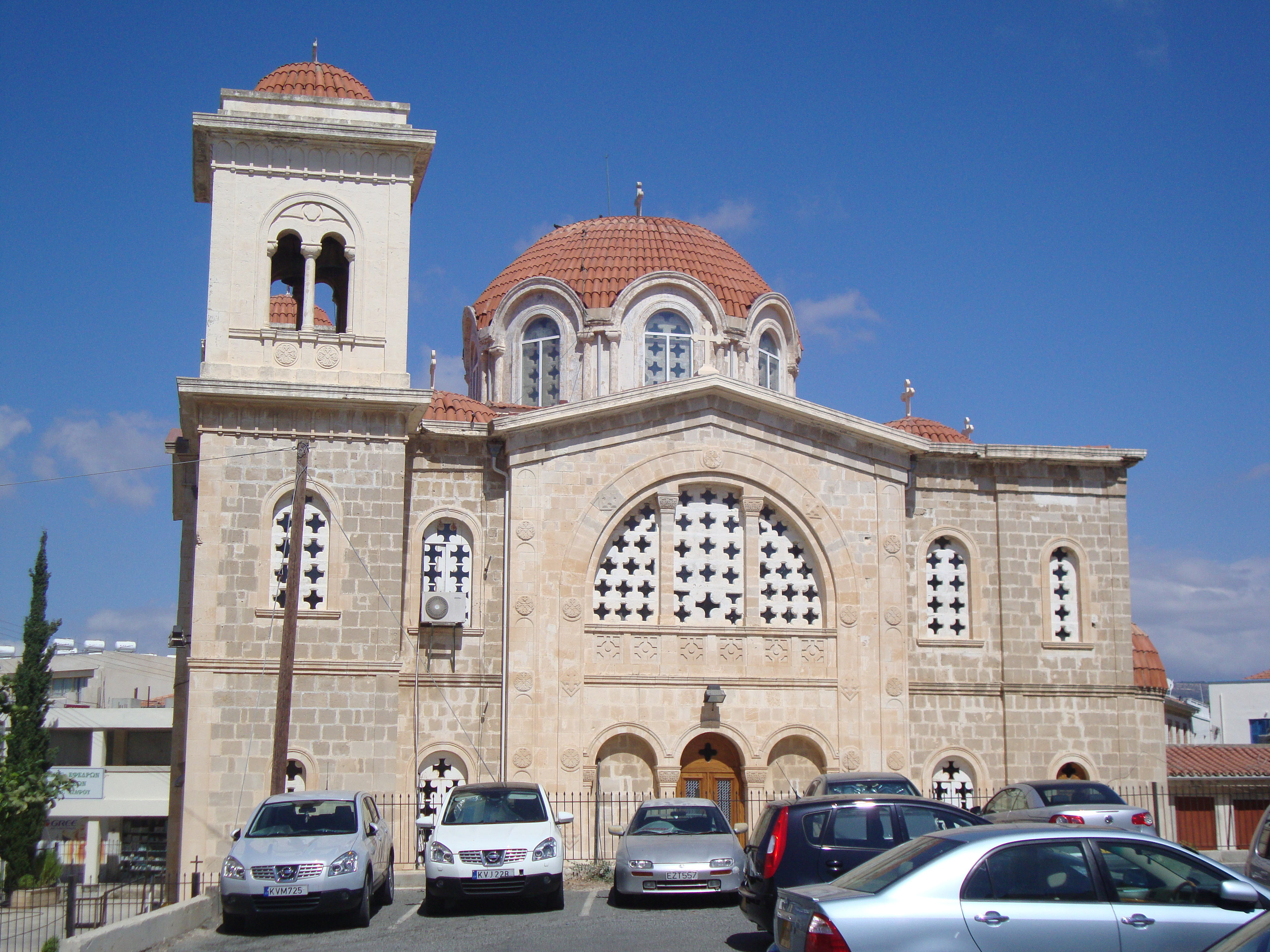 Ayios Kendeas Church (Paphos). 09.2013.